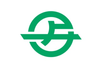 Flag of Asakuchi Okayama